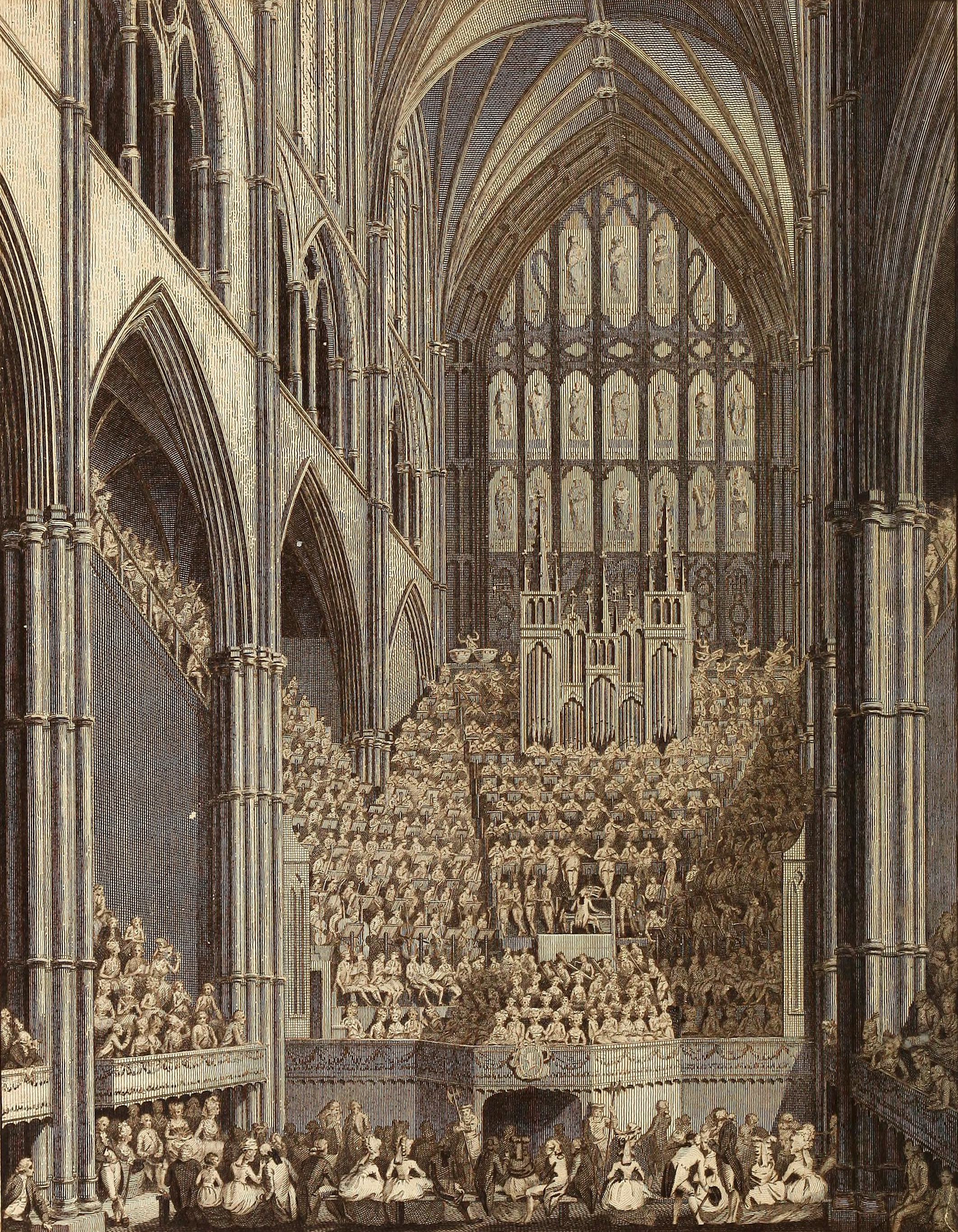 Organ and Choir installation at Westminster Abbey for the Handel Commemoration of 1784